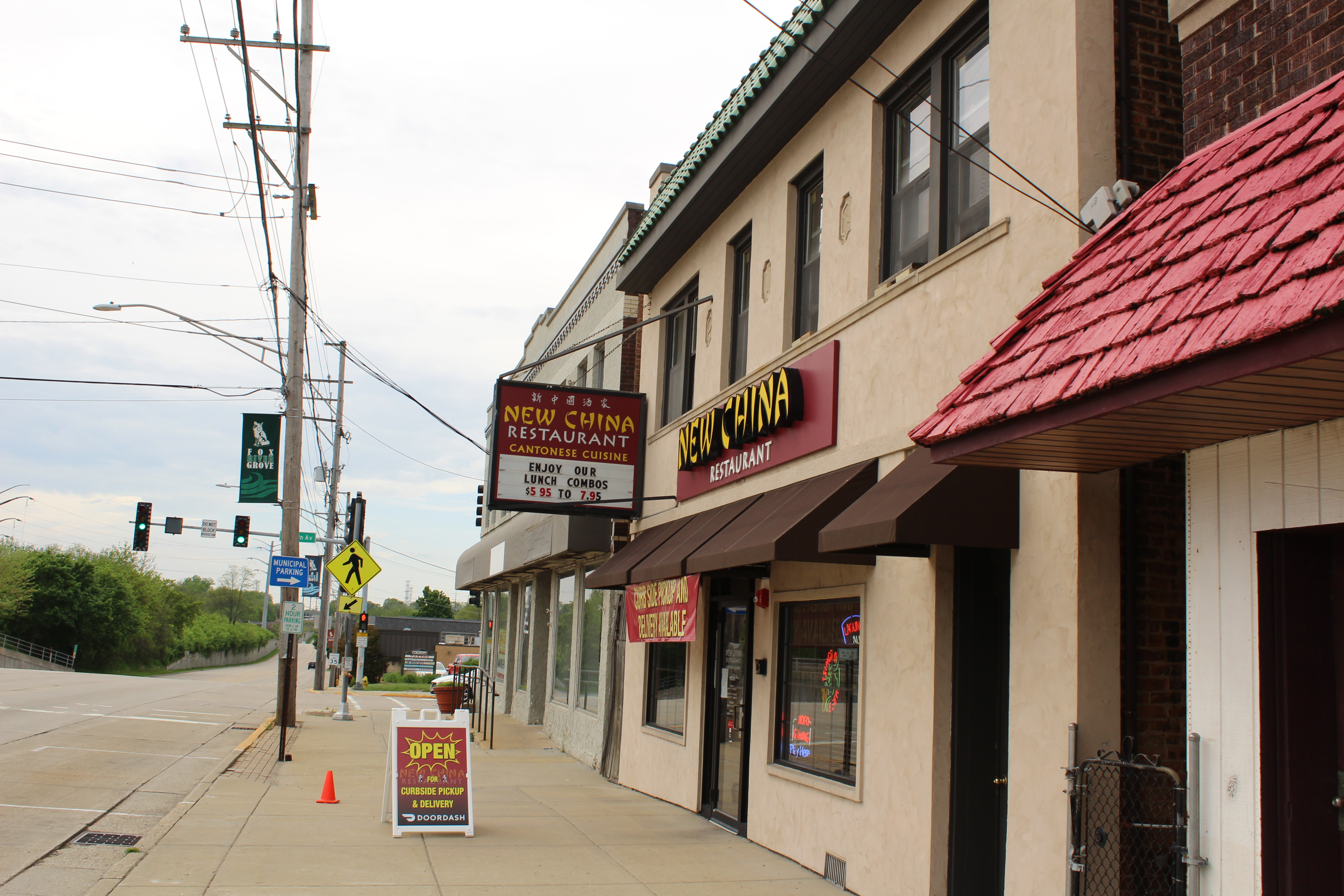 New China Restaurant 1, Fox River Grove, IL